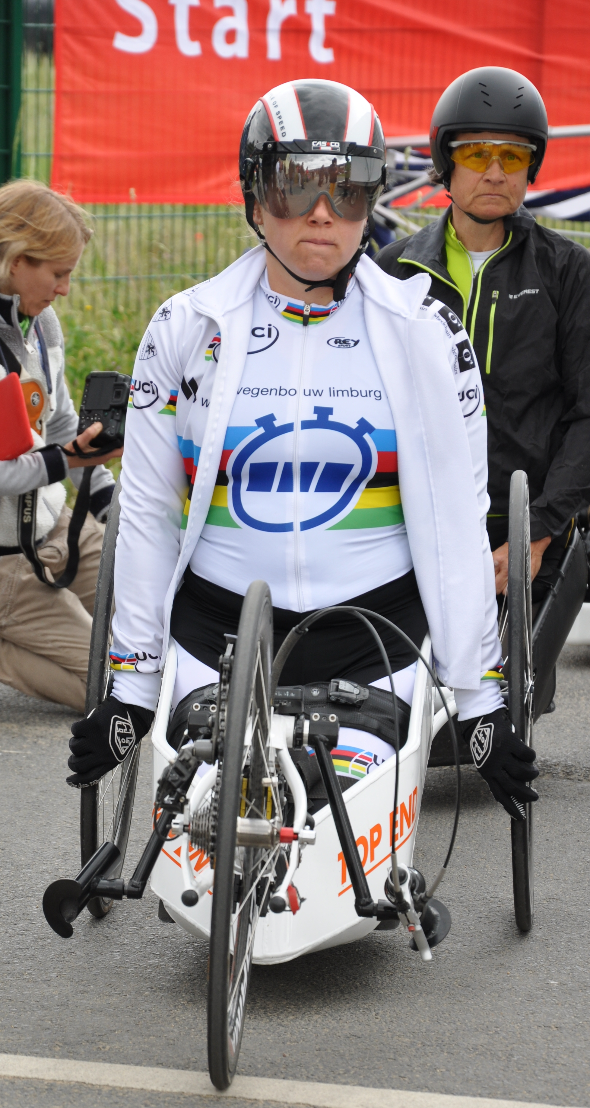 Laura de Vaan, Dutch para-cyclist